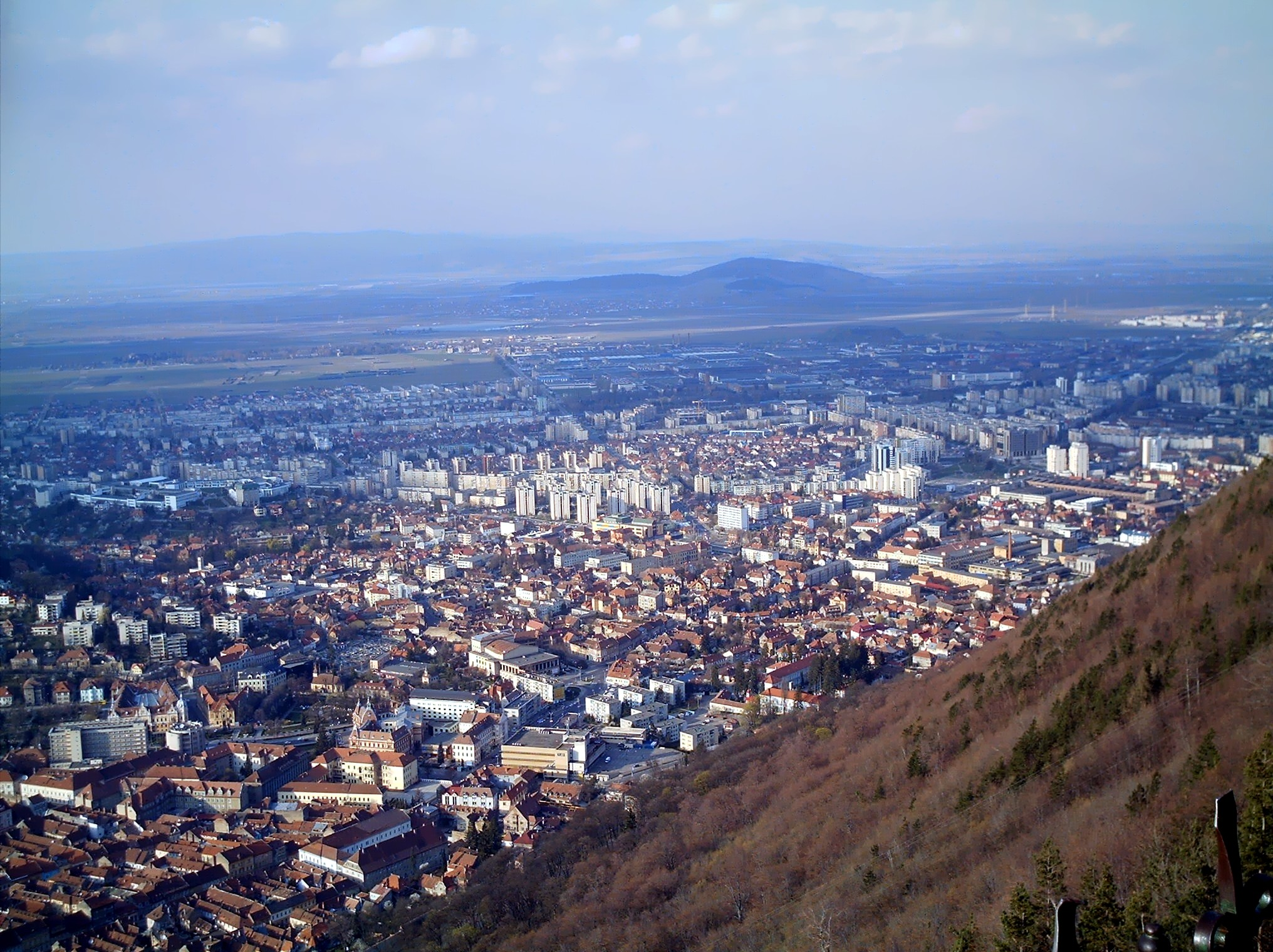 View over Burzenland from Tampa mountain, Brasov